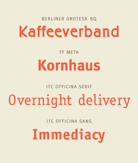 Specimens of types by the typeface deisgner Erik Spiekermann. 14.02.07, Jim Hood.